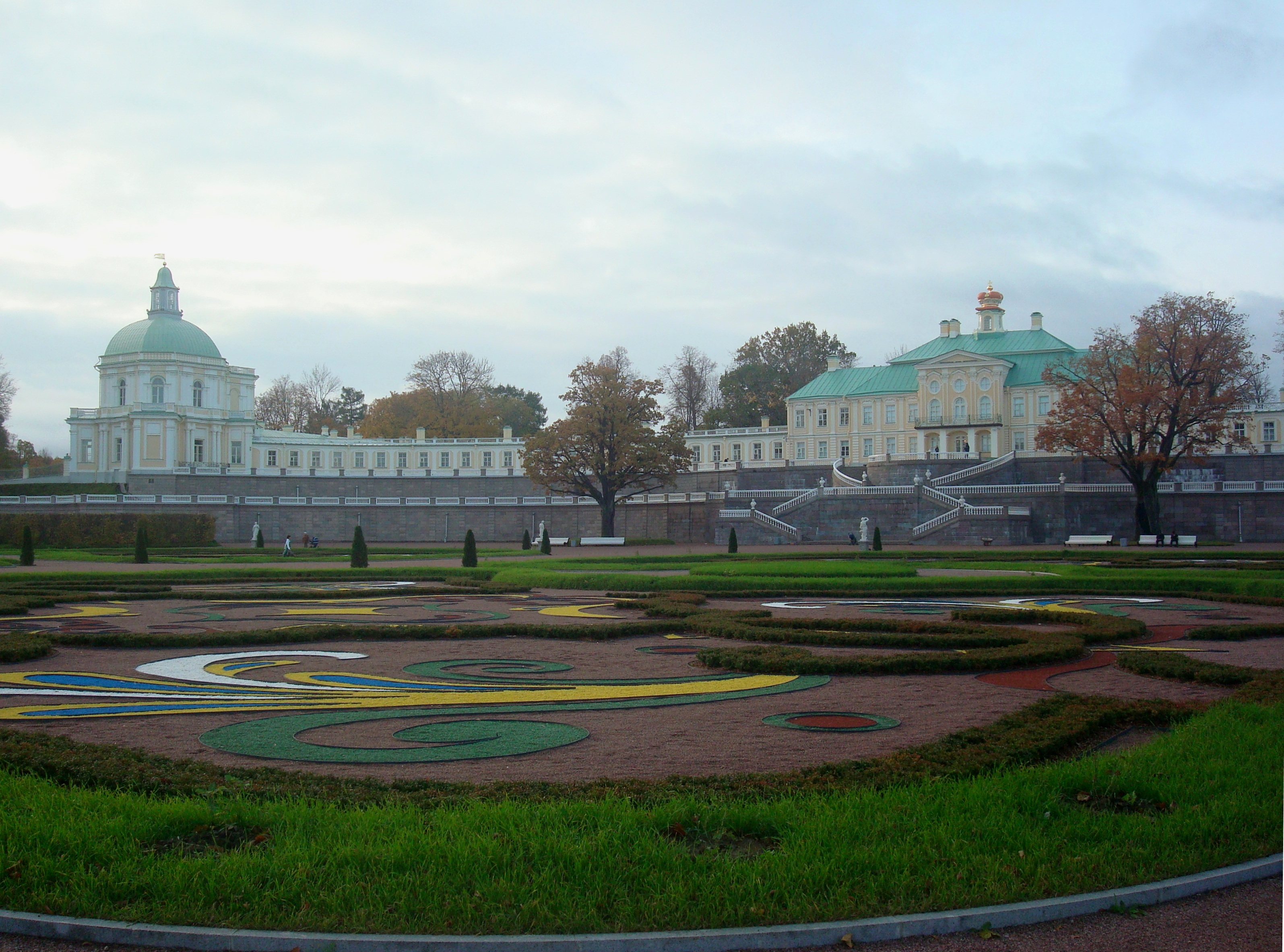 Grand Menshikov palace in Oranienbaum (Russia). View from the Lower garden.